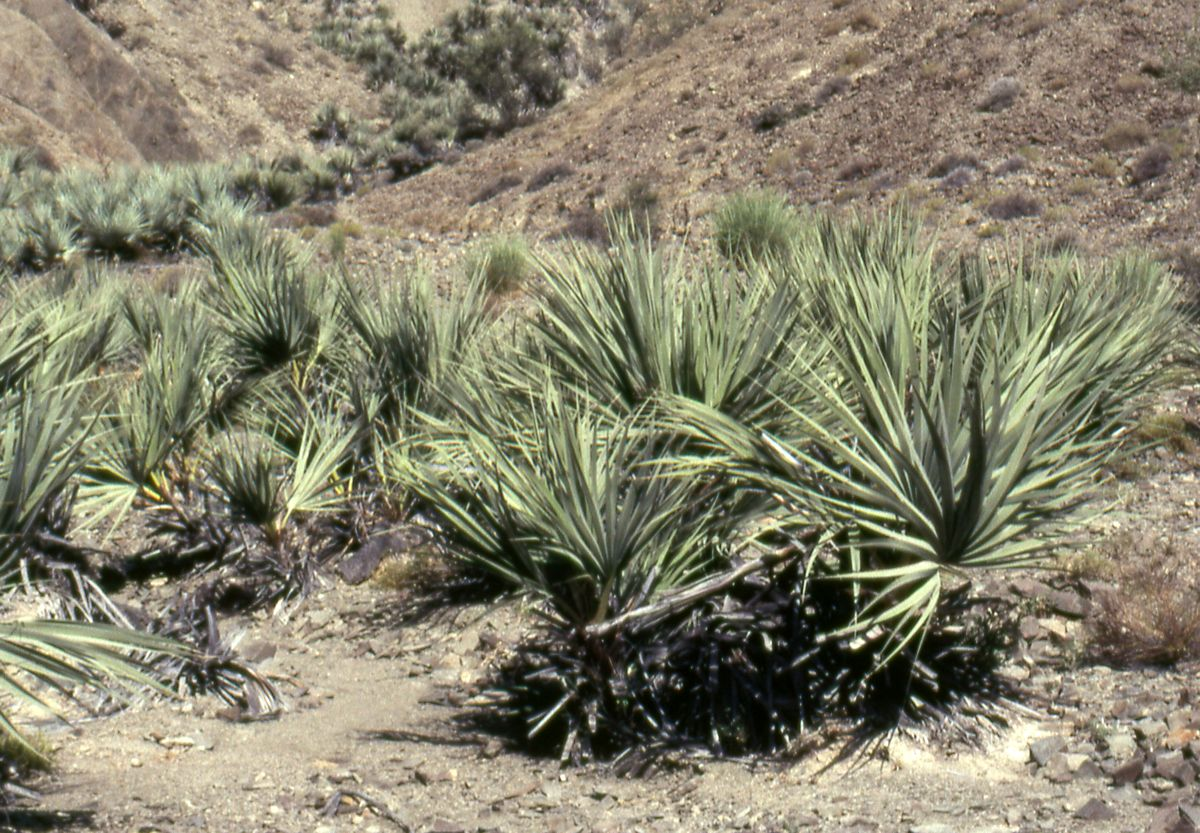 Nannorrhops ritchiana, Pakistan, Baluchistan, near Hoshab